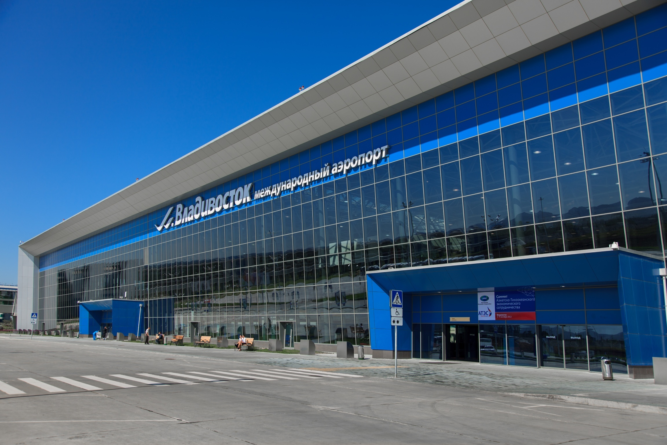 New terminal in Vladivostok International Airport (UHWW/VVO)